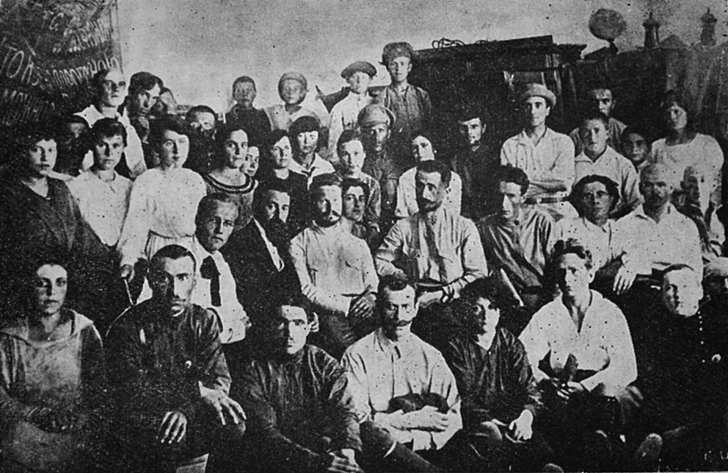 Political section of the Turkestan Front, 1919-1920. First row, second from left (crouched): Ion Dic Dicescu. Behind him, Ghiță Moscu. Second row, third from left: Mikhail Frunze